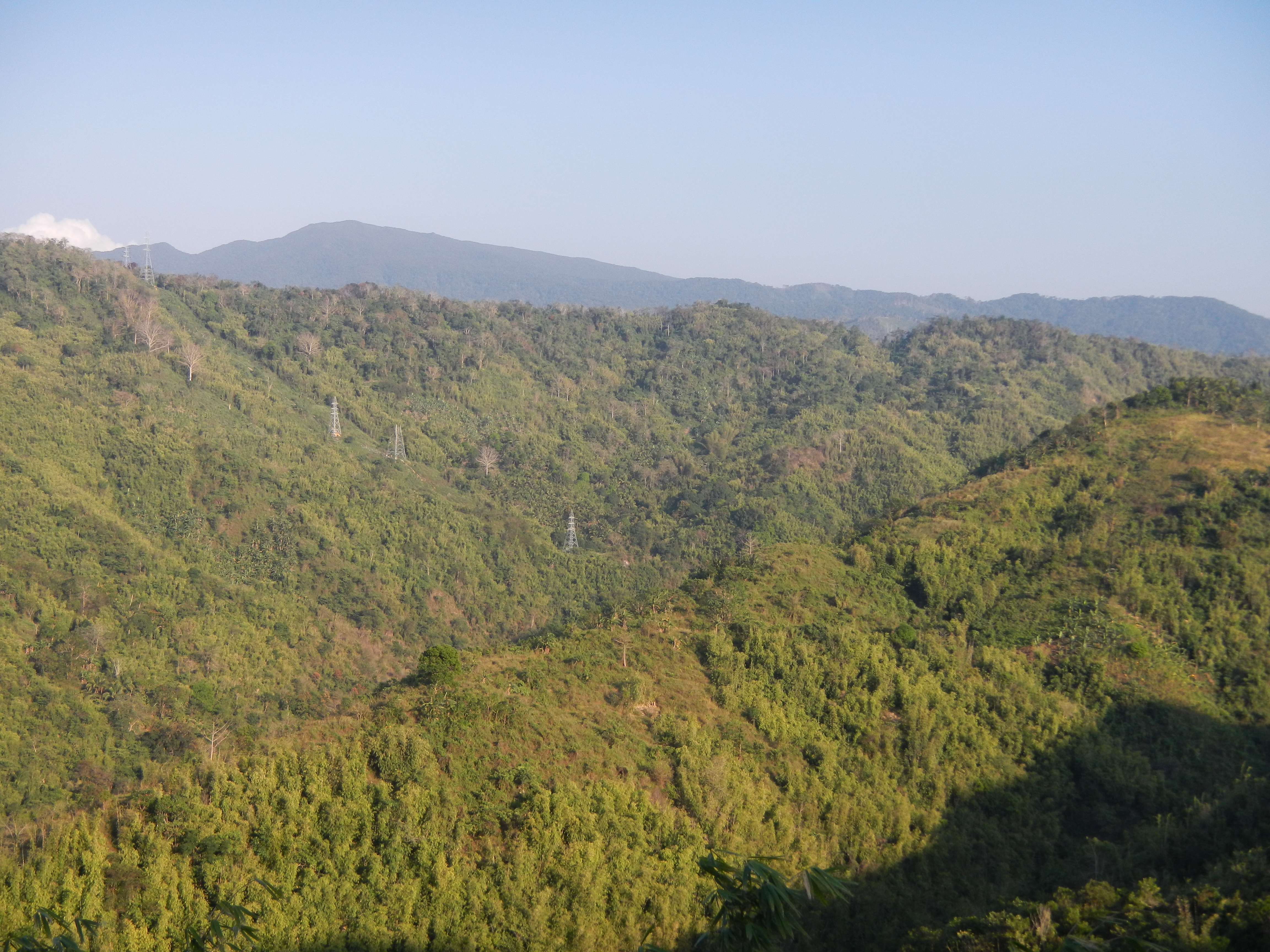 Ipo dam, Angat Rainforest and Ecological Park, Bit-Bit River-Bit-Bit Bridge in Barangay San Mateo beside San Lorenzo (Hilltop), Angat Reservoir and Hydroelectric Power Plant surrounded by lush greens, Angat Lake from Bigte, Norzagaray, Bulacan, Bulacan province (along the Bigte-San Mateo, Norzagaray, Bulacan Farm to Market Provincial Road interconnecting with the San Mateo-San Lorenzo, Norzagaray, Bulacan Farm to Market Road; connected by the Bit-Bit, River-Bit-Bit Bridge 14° 53.984N 121° 08.428E to the Angat Rainforest and Ecological Park, AREP, Watershed Management Department, Sitio Bitbit, Angat Watershed Area Team, by Presidential Proclamation Nos. 505 and 599 under the National Power Corporation, Exective Order No. 224, beside the Headquarters Alpha (AGGRESSOR) Company 48th Infantry Guardians BN, 7th Infantry Division, Philippine Army, Headquarters 3rd Platoon, 1st BUCAA Company, Charlie Company 70 IB (CAFGU) 7ID, PA, Sitio Suha Patrol Base, Detachment, from and along the General Alejo G. Santos Highway (Angat-Norzagaray, Bulacan section) interconnecting with and from the Norzagaray, Bulacan Welcome arch located in Barangay Minuyan I, Sapang Palay, City of San Jose del Monte, along Quirino Highway).